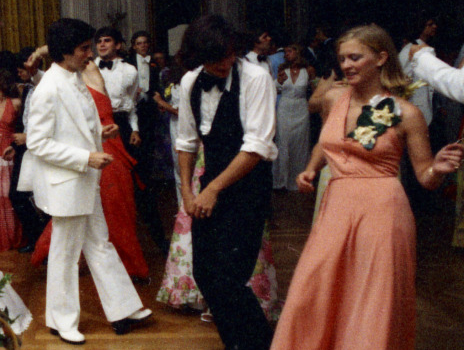 Susan Ford, her classmates, and their dates dance to the music of Sandcastle at the Holton-Arms senior prom Other information White House photograph A4766-09A